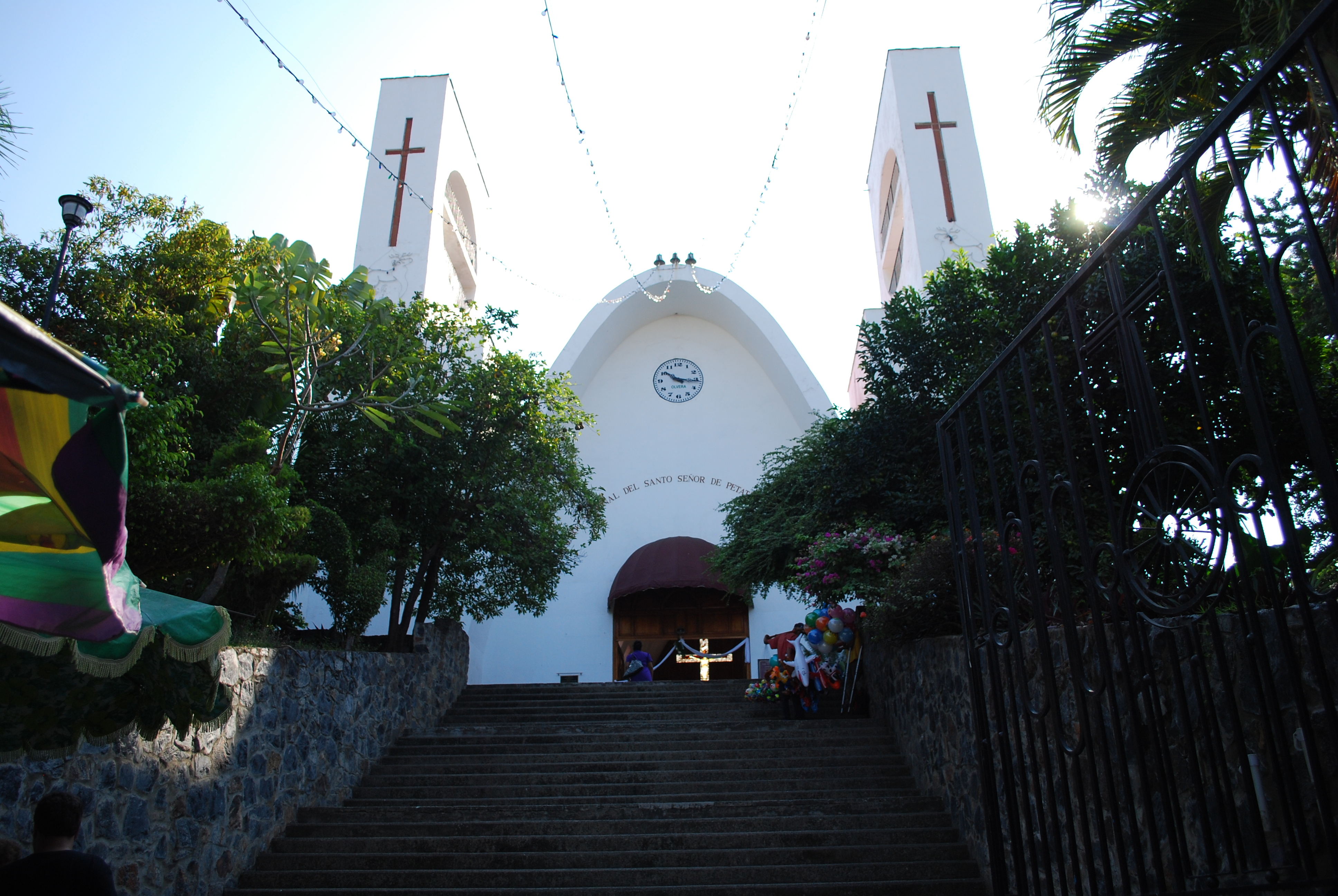 Stairs and facade of the Sanctuary of Señor de Petatlán, Petatlán, Guerrero